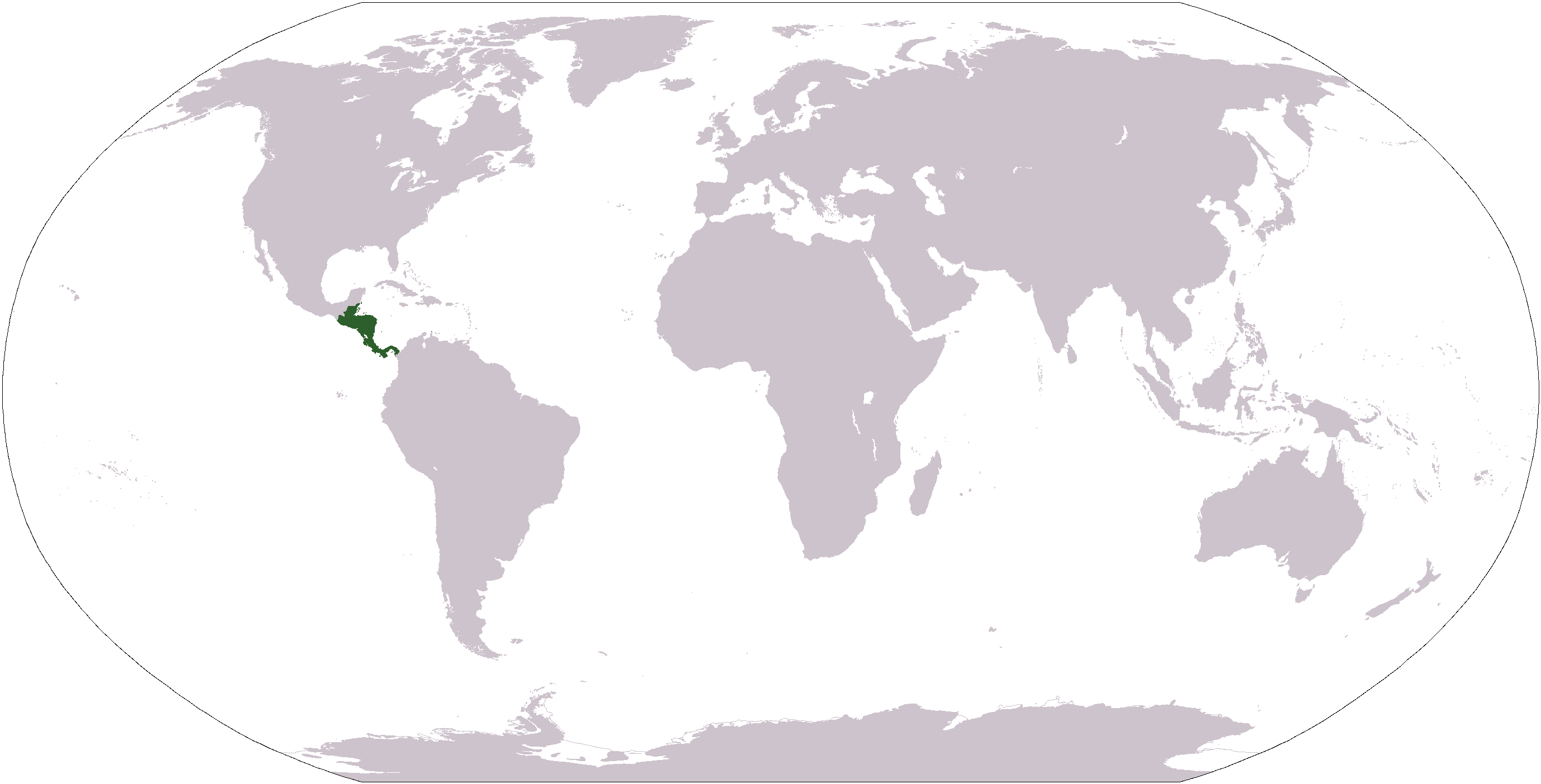 Locator map of Central America